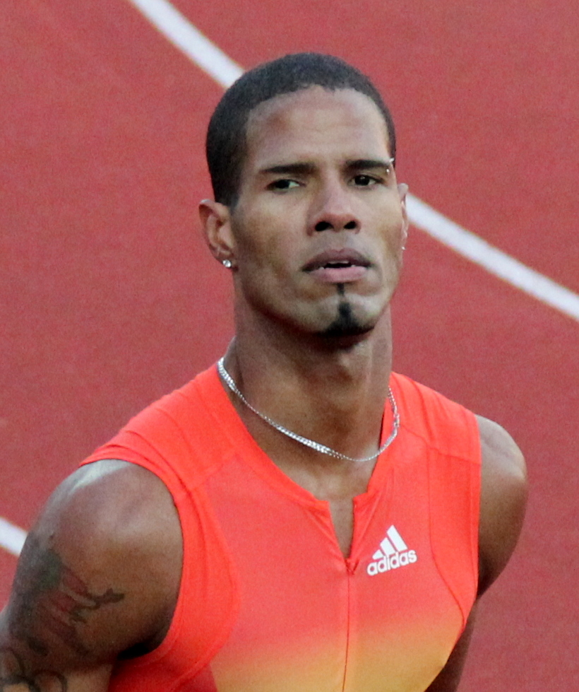 Javier Culson at the 2012 Bislett Games